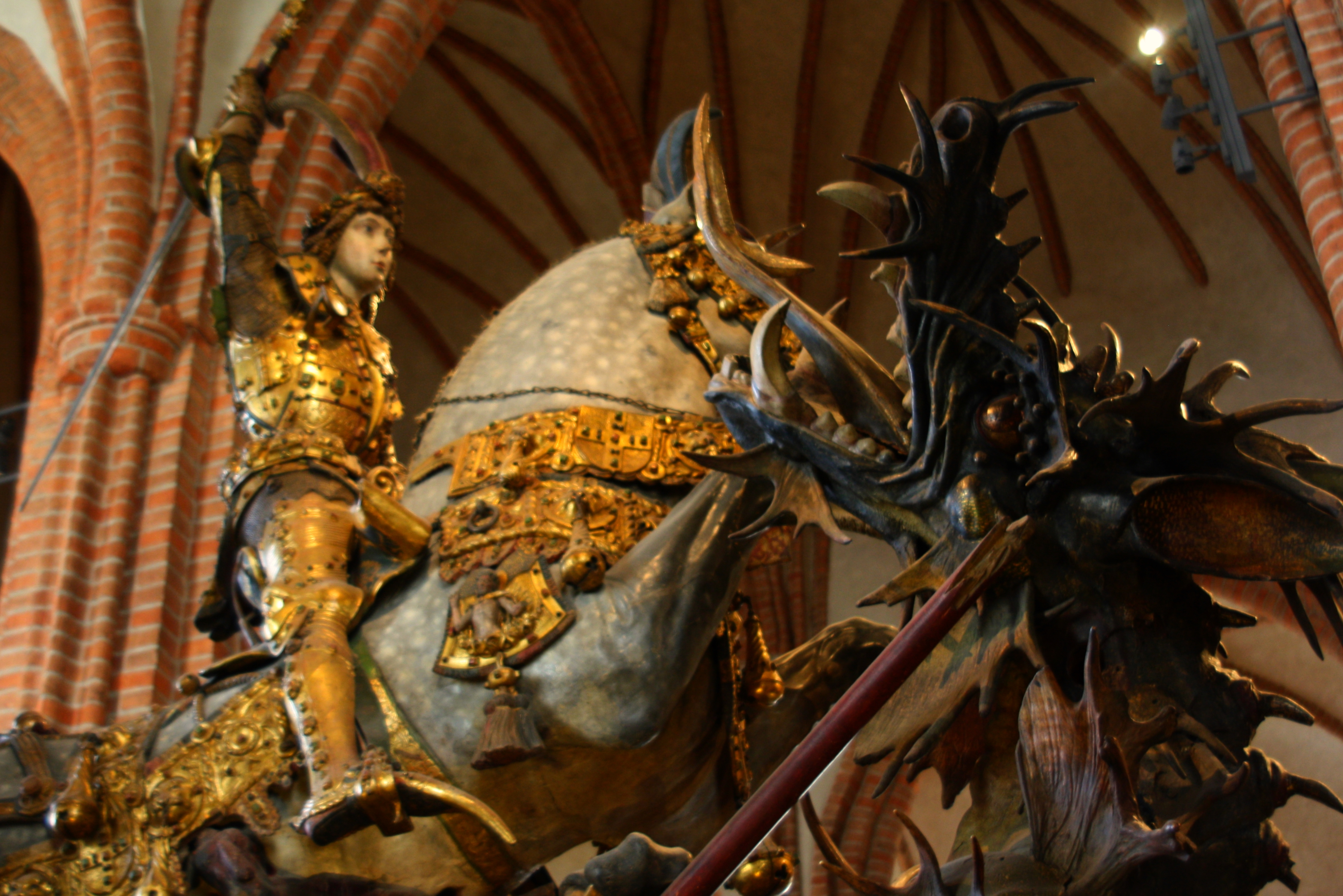 Gamla stan (The Old Town) Stockholm S:t George and the dragon. Wooden statue in the Storkyrkan church.